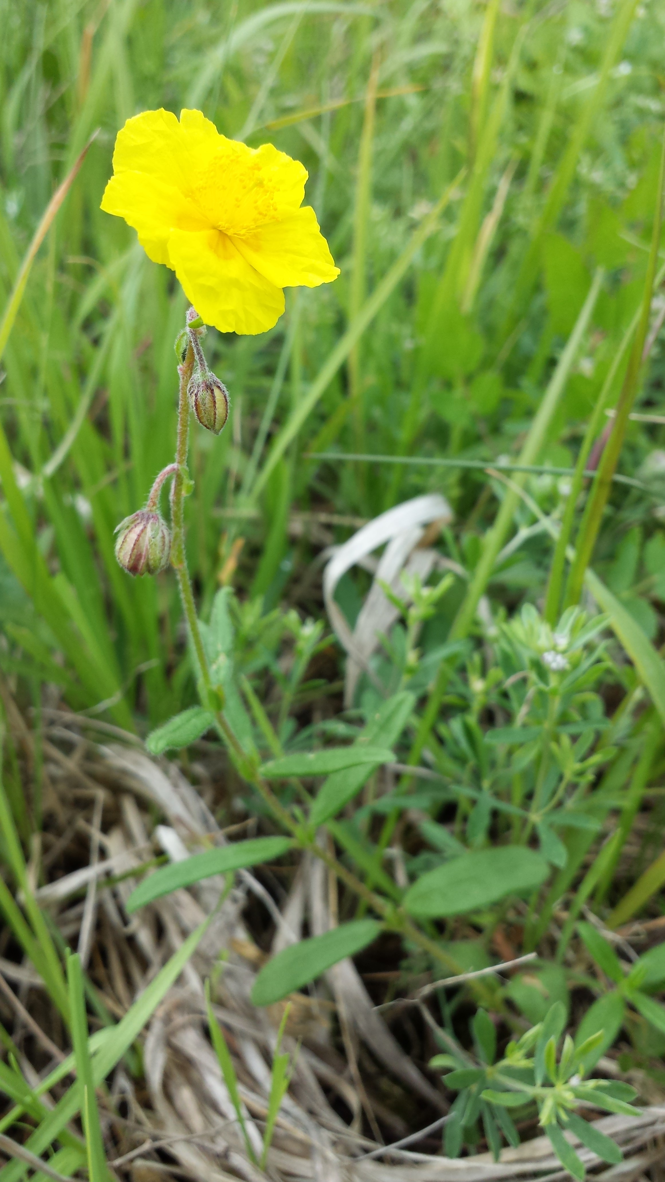 Habitus Taxon: Helianthemum nummularium subsp. obscurum (sensu Fischer et al. EfÖLS 2008 ISBN 978-3-85474-187-9) Location: Wartberg near Ulrichskirchen, district Mistelbach, Lower Austria - ca. 240 m a.s.l. Habitat: semi dry grassland